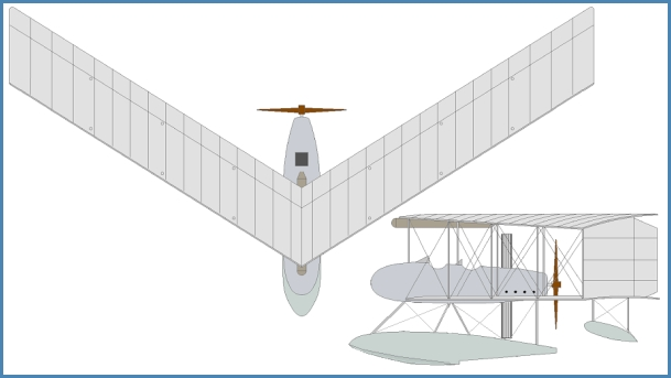 Burgess BDH 1917